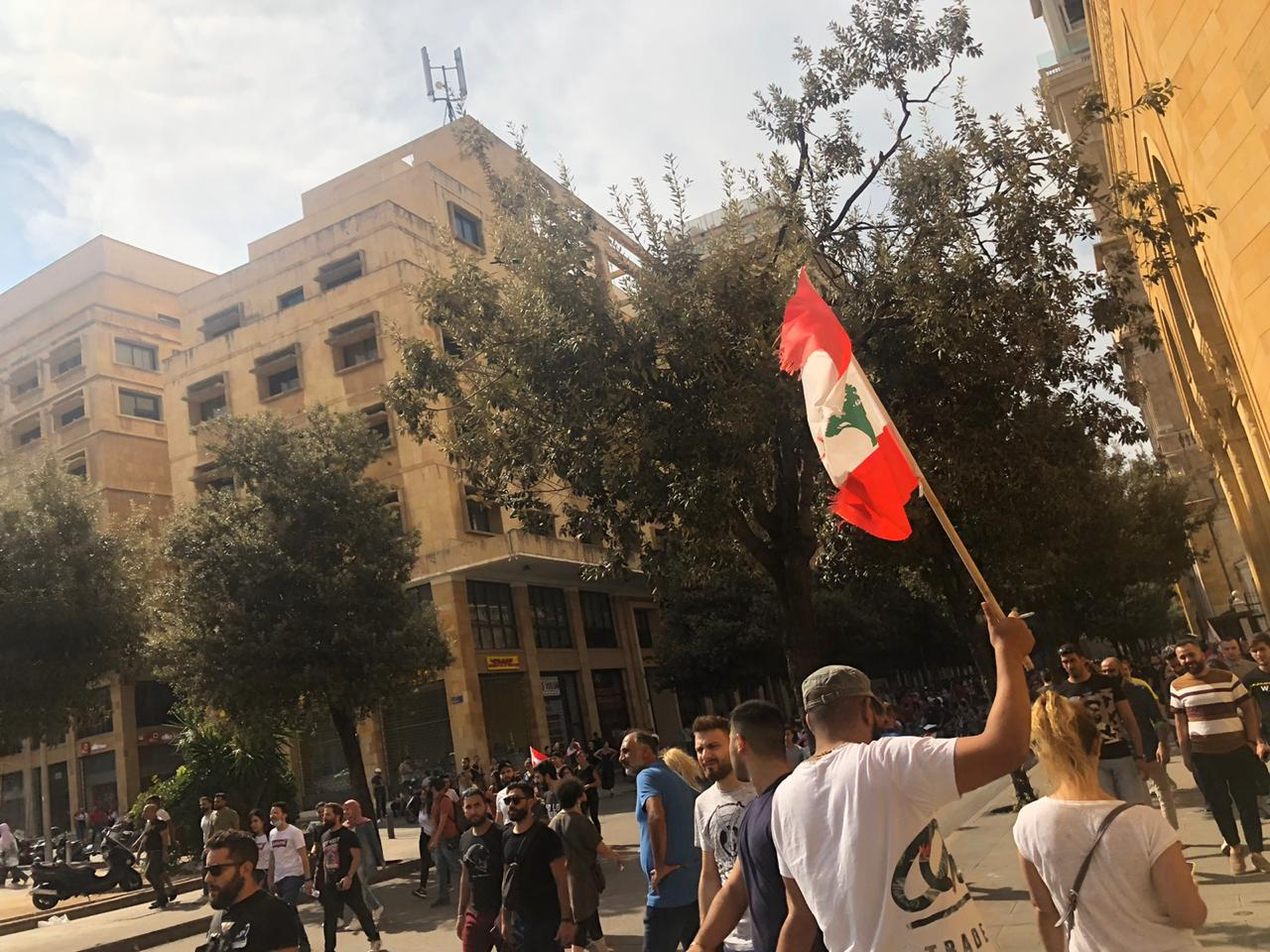 2019 Lebanese protests - Beirut